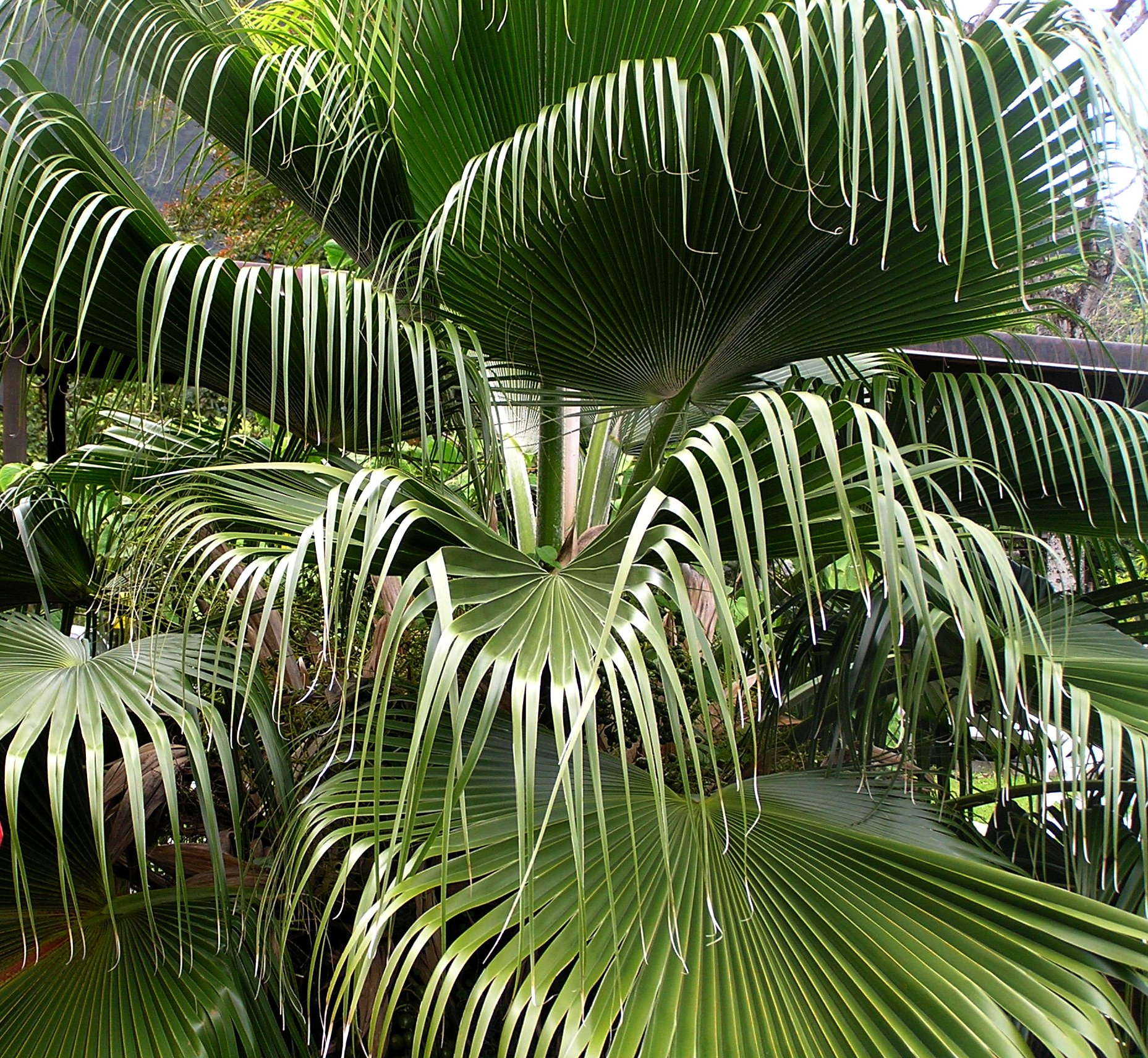 Loulu Arecaceae (Origin: Maui) Endemic to the Hawaiian Islands Oʻahu (Cultivated) NPH00010